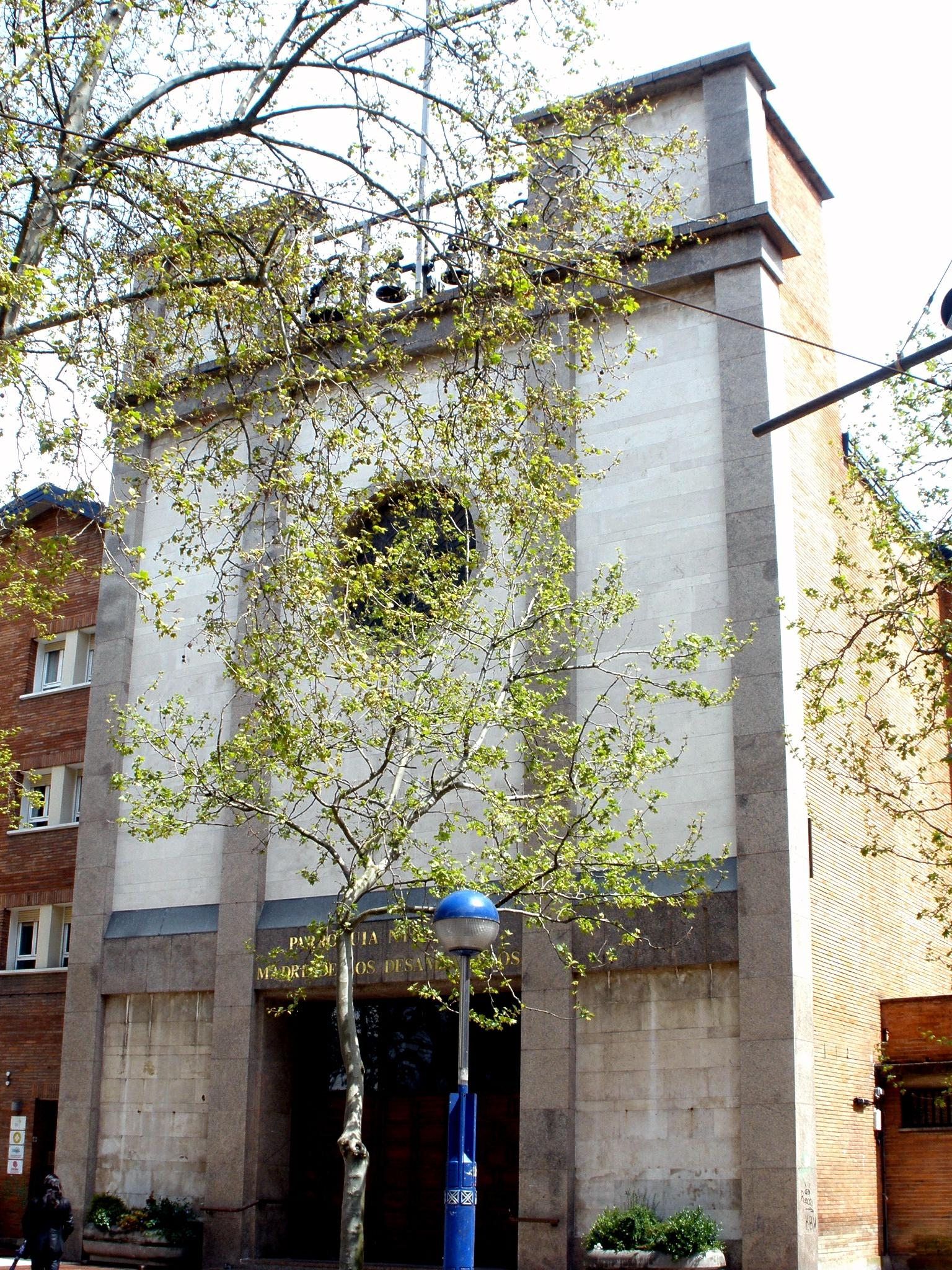 Iglesia de los Desamparados, Vitoria-Gasteiz